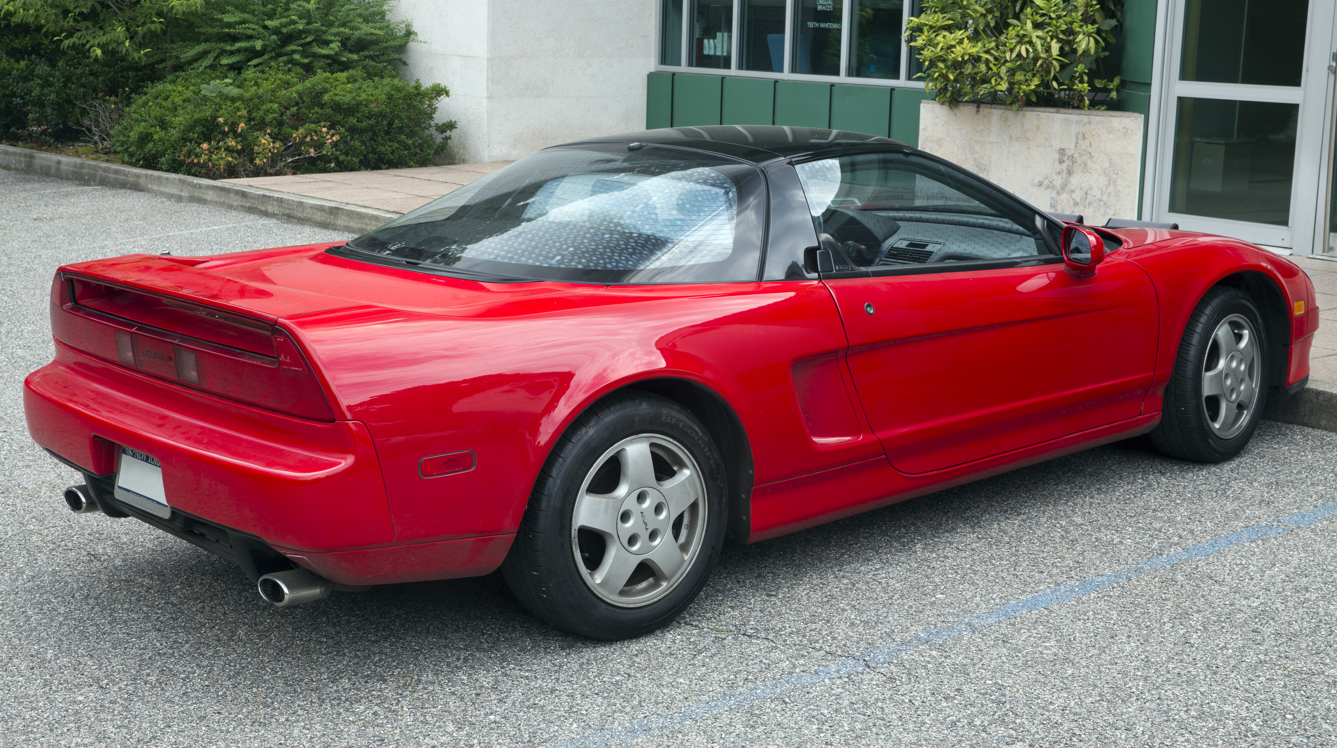 1991 Acura NSX - manual with manual steering, built in Tochigi, Japan.